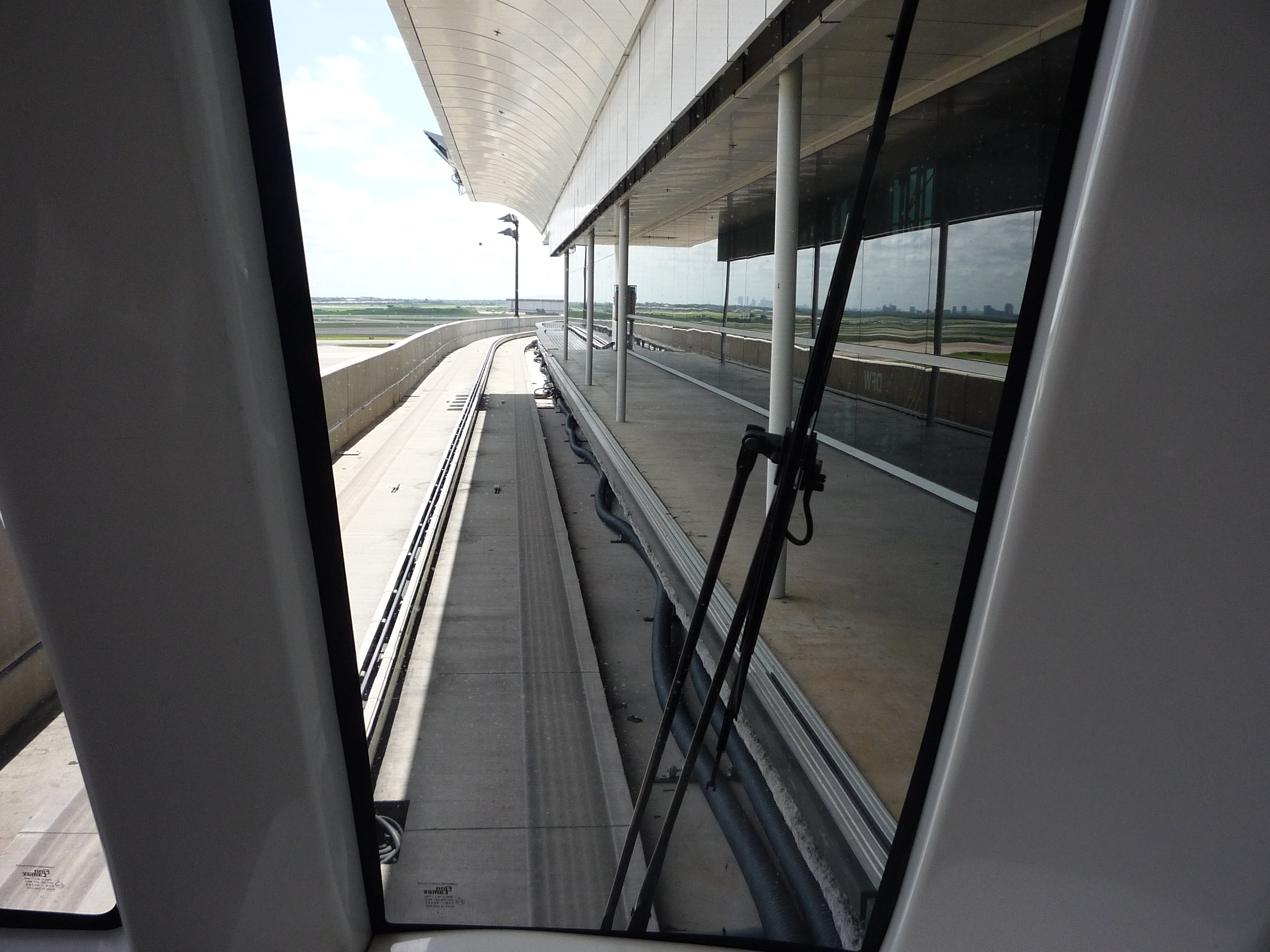 Skylink APM at DFW International Airport arriving at station.